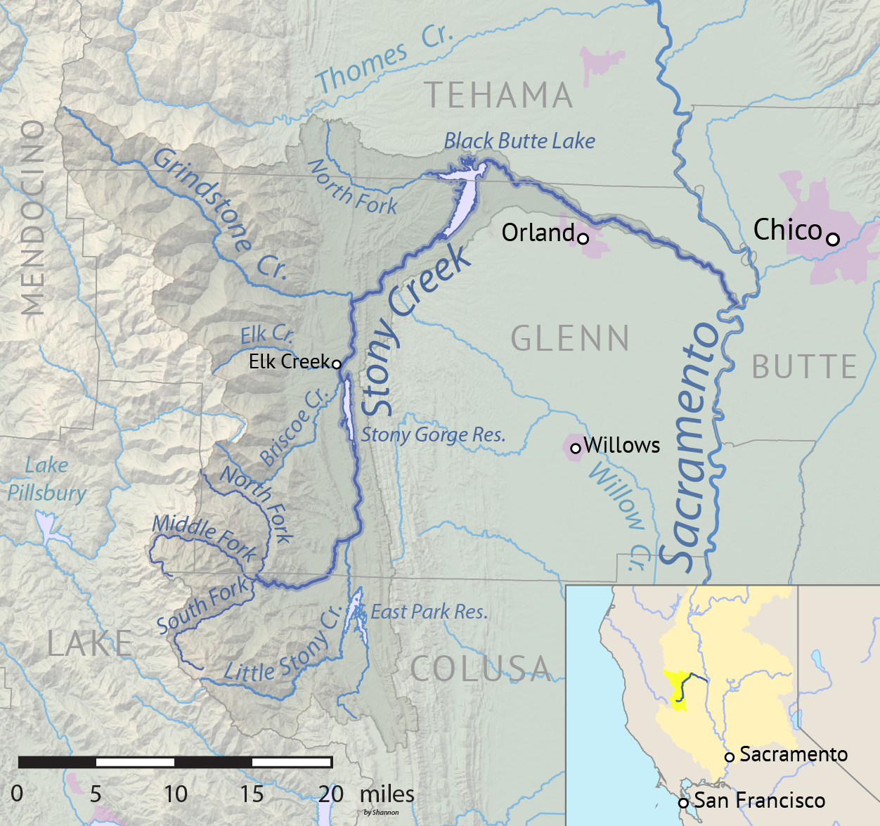 Map of the Stony Creek drainage basin in California, USA. Made using USGS National Map and NASA SRTM data.